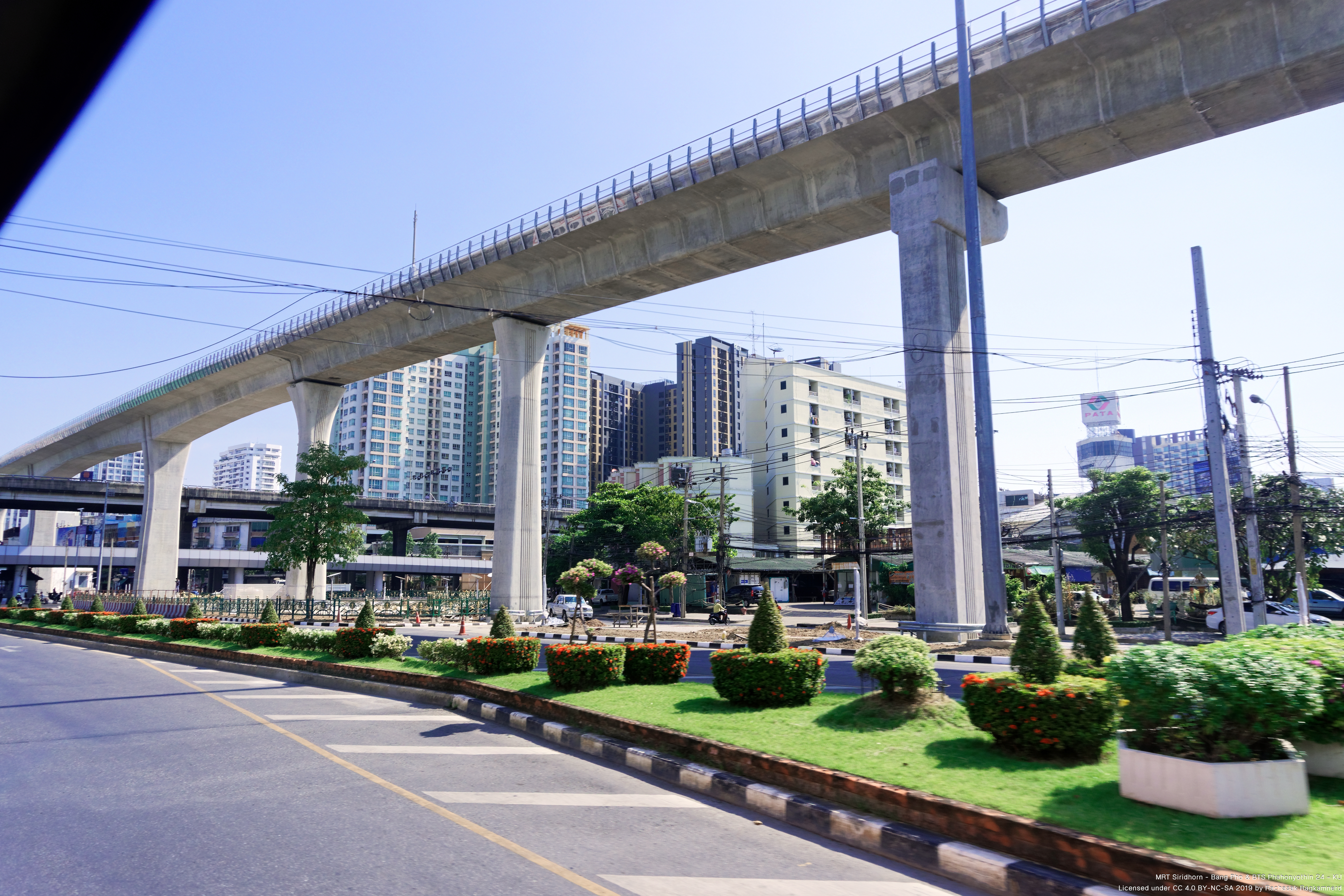 MRT Bang Yii Khan - Baromratchachonnanee intersection overpass